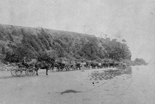 Bullock Teams at the Bluff on the northern end of Yeppoon Main Beach